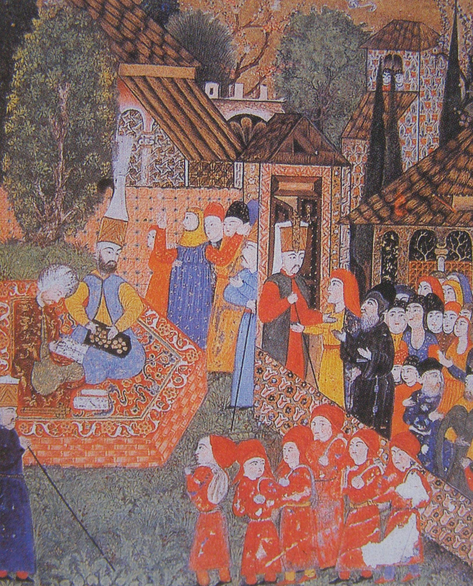 The Ottomans enlisting the Hungarian children: Devşirme for Sultan Suleyman I (1495-1566)